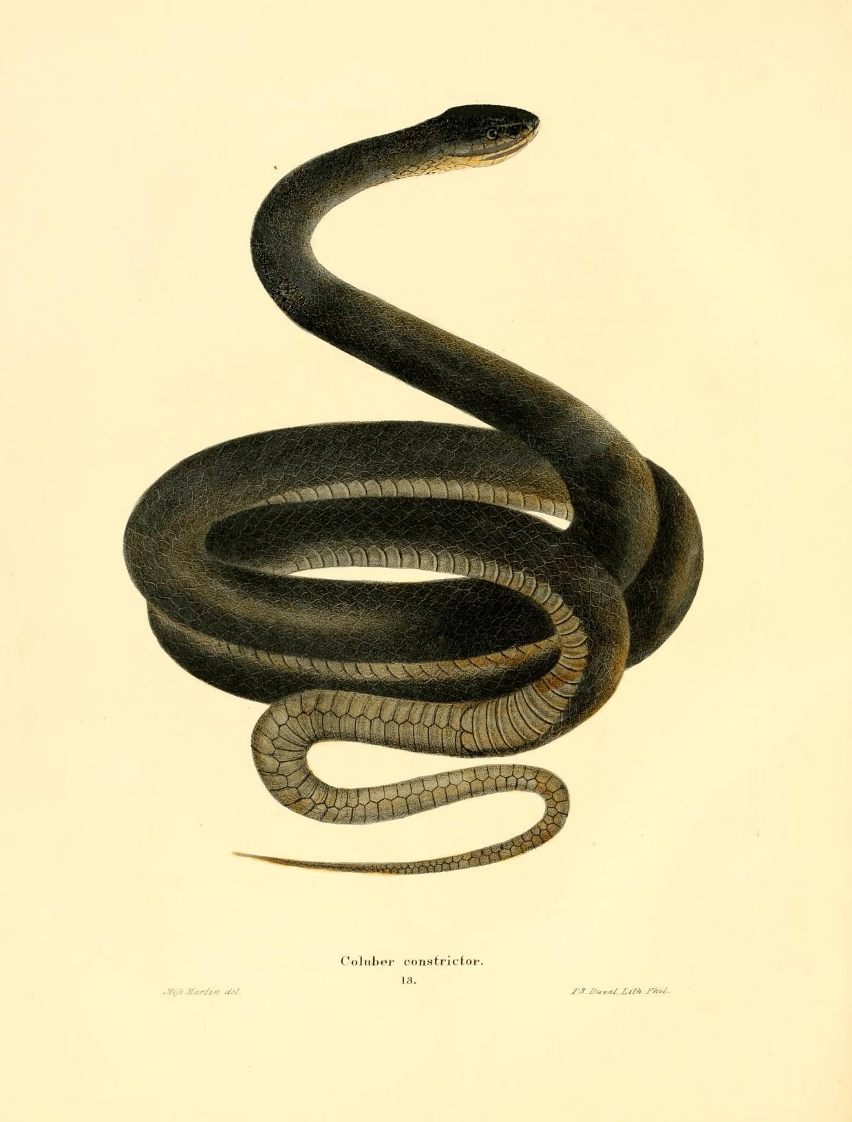 ColiiltiM" constrictor. .T/t/i .Ifar/t't ^/, yS J/uyeti.£i/Ay/i.